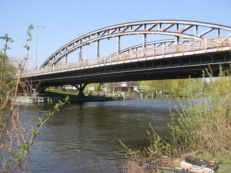 The Freybrücke is a street-bridge of the Heerstraße over the river Havel in Berlin-Wilhelmstadt, Borough Spandau. It was built in 1908/1909 according to the plans of the construction engineer Karl Bernhard.